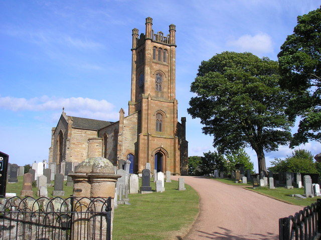 Kilconquhar Church, near to Kilconquhar, Fife, Scotland. The view of Kilconquhar Church from the foot of the driveway up to the front door.